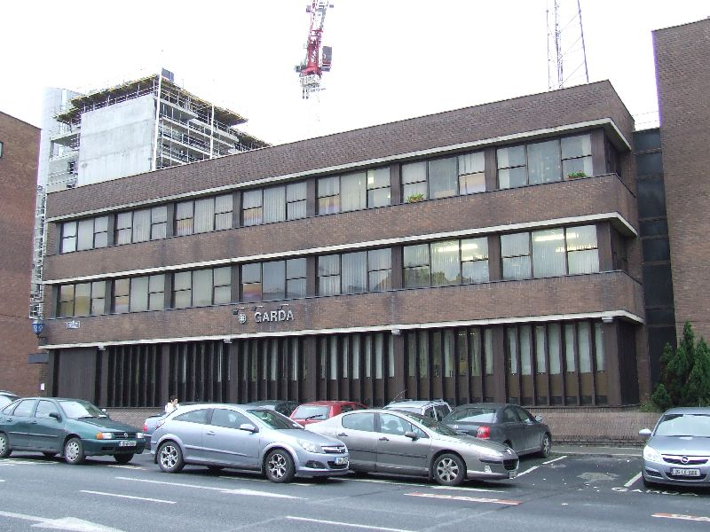 Garda in Limerick (Henry St.)